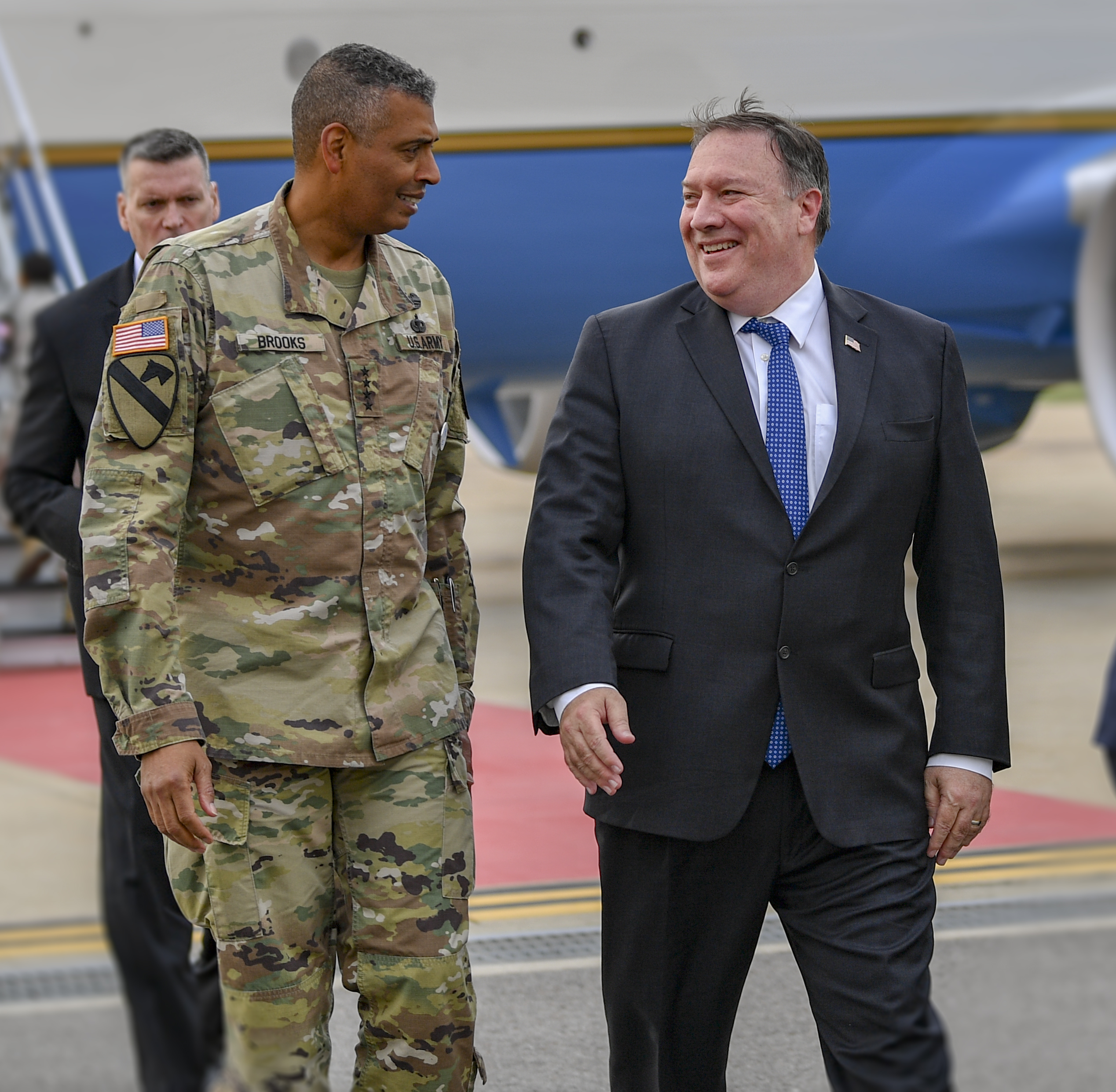 U.S. Secretary of State Mike Pompeo is greeted by USFK Commander General Vincent Brooks upon arrival to Osan Air Base in Osan, Seoul on June 13, 2018. [State Department photo/ Public Domain]